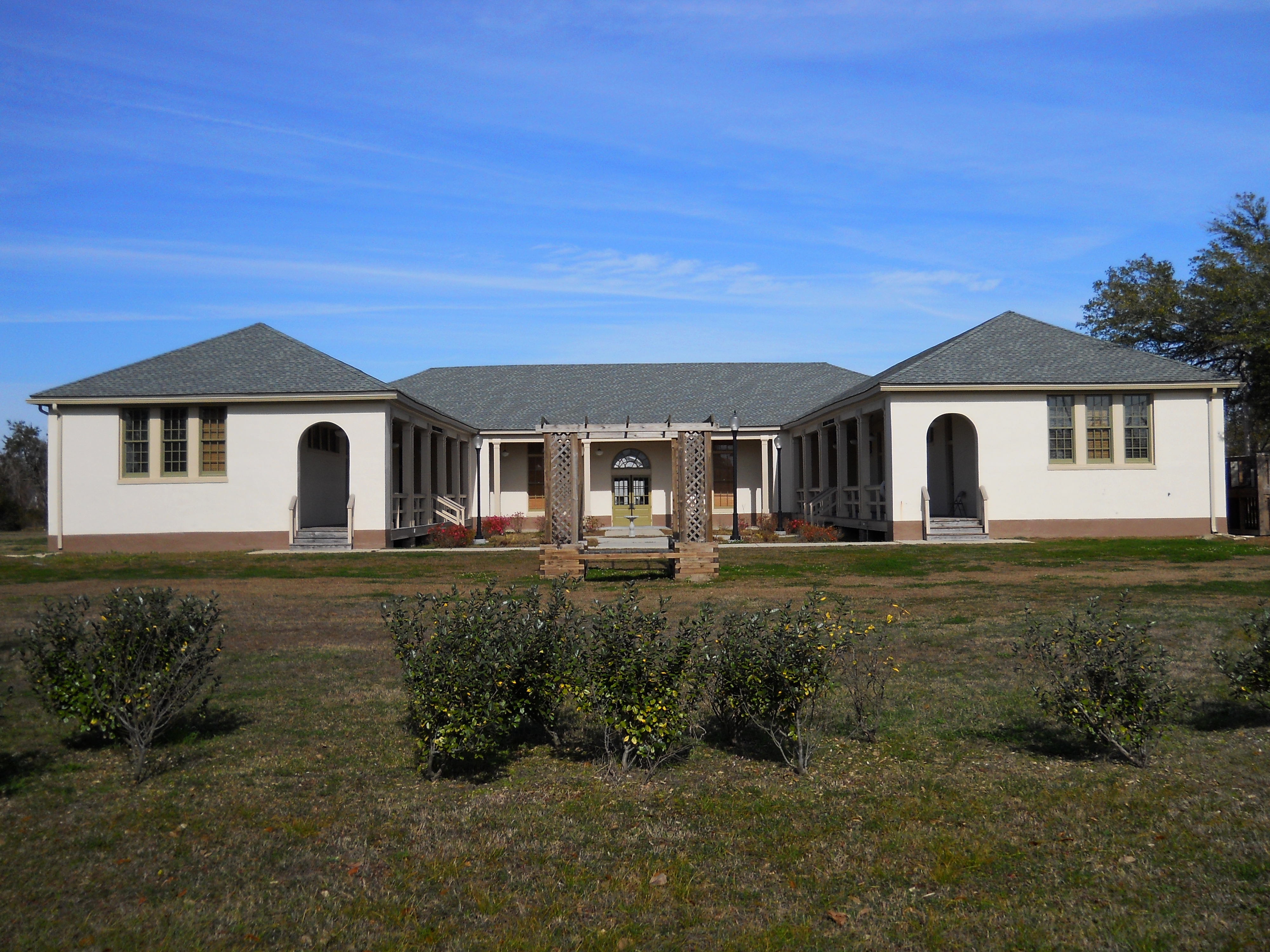 J.W. Randolph School in Pass Christian, Harrison County, Mississippi, USA. The school was constructed in 1928 and was designated a Mississippi Landmark in 2006.